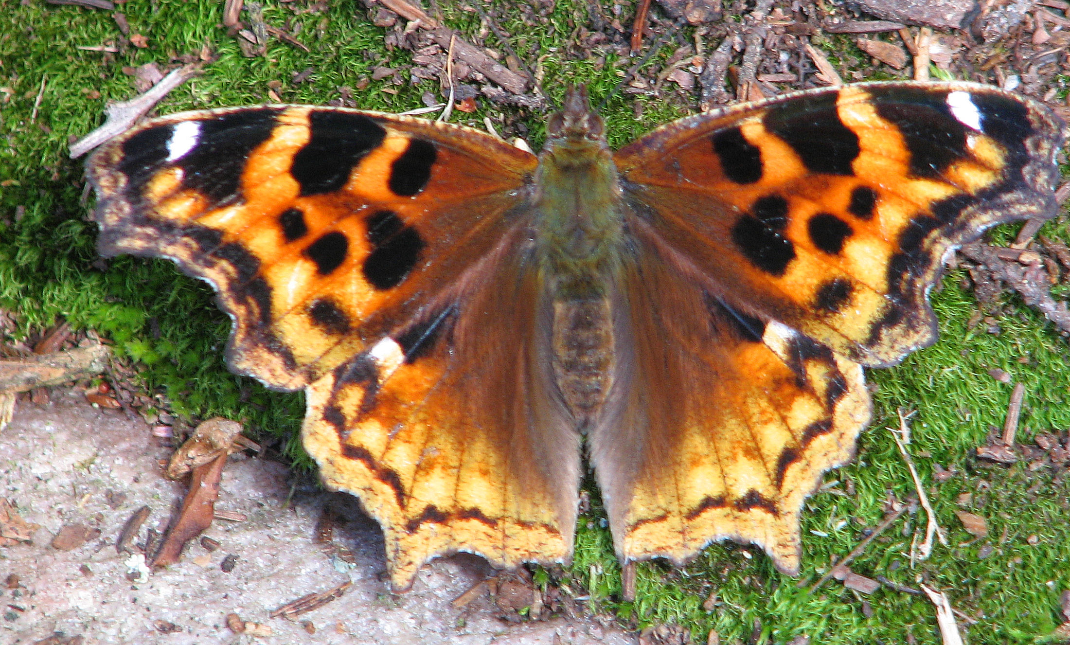 Compton Tortoiseshell (Nymphalis vaualbum), Temagami, Ontario, Canada